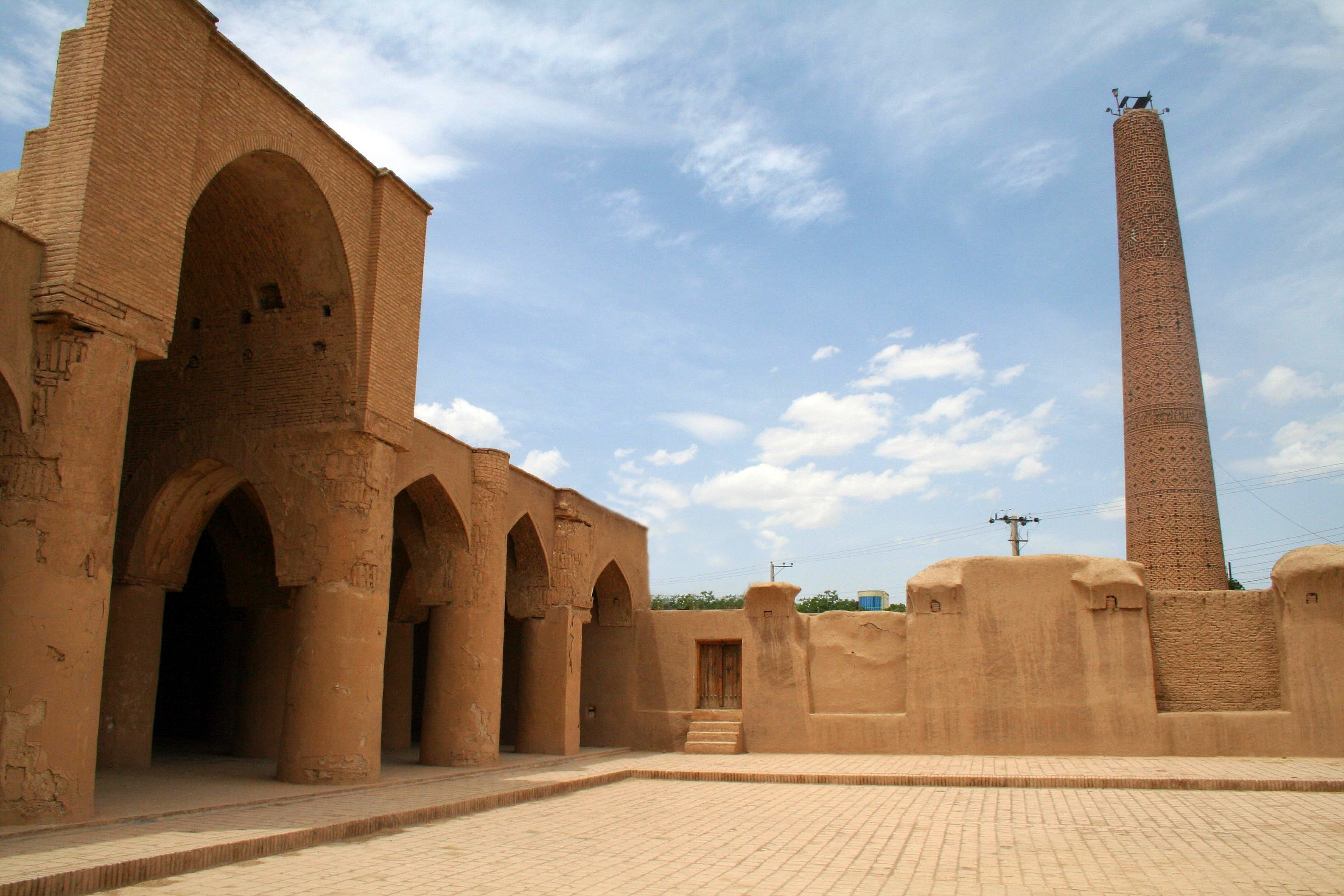 Tarikhaneh mosque in Damghan, the probably oldest mosq in Iran.